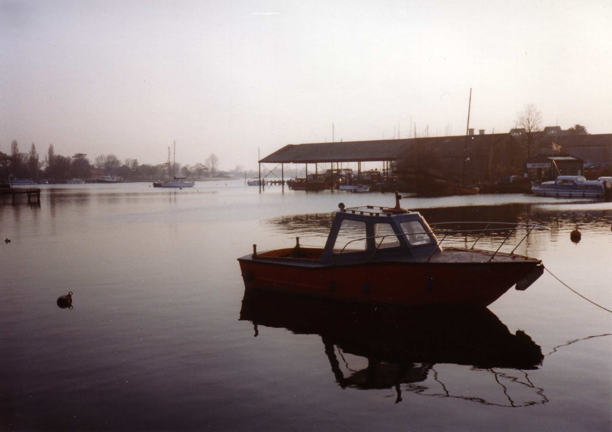 Oulton Broad, September 1995. Taken from Commodore Road Side by Gilbey Momerath